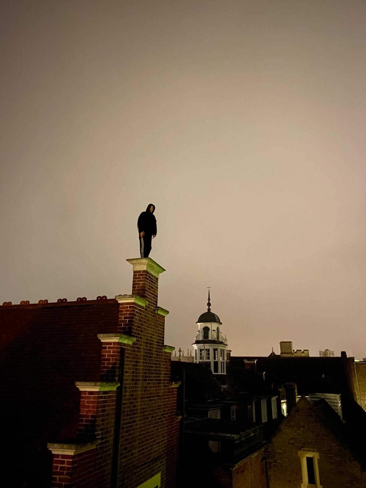 This image depicts an Oxford Night Climber, standing on the ‘Stepping Stones’. A frequently Night Climbing route in Cambridge.